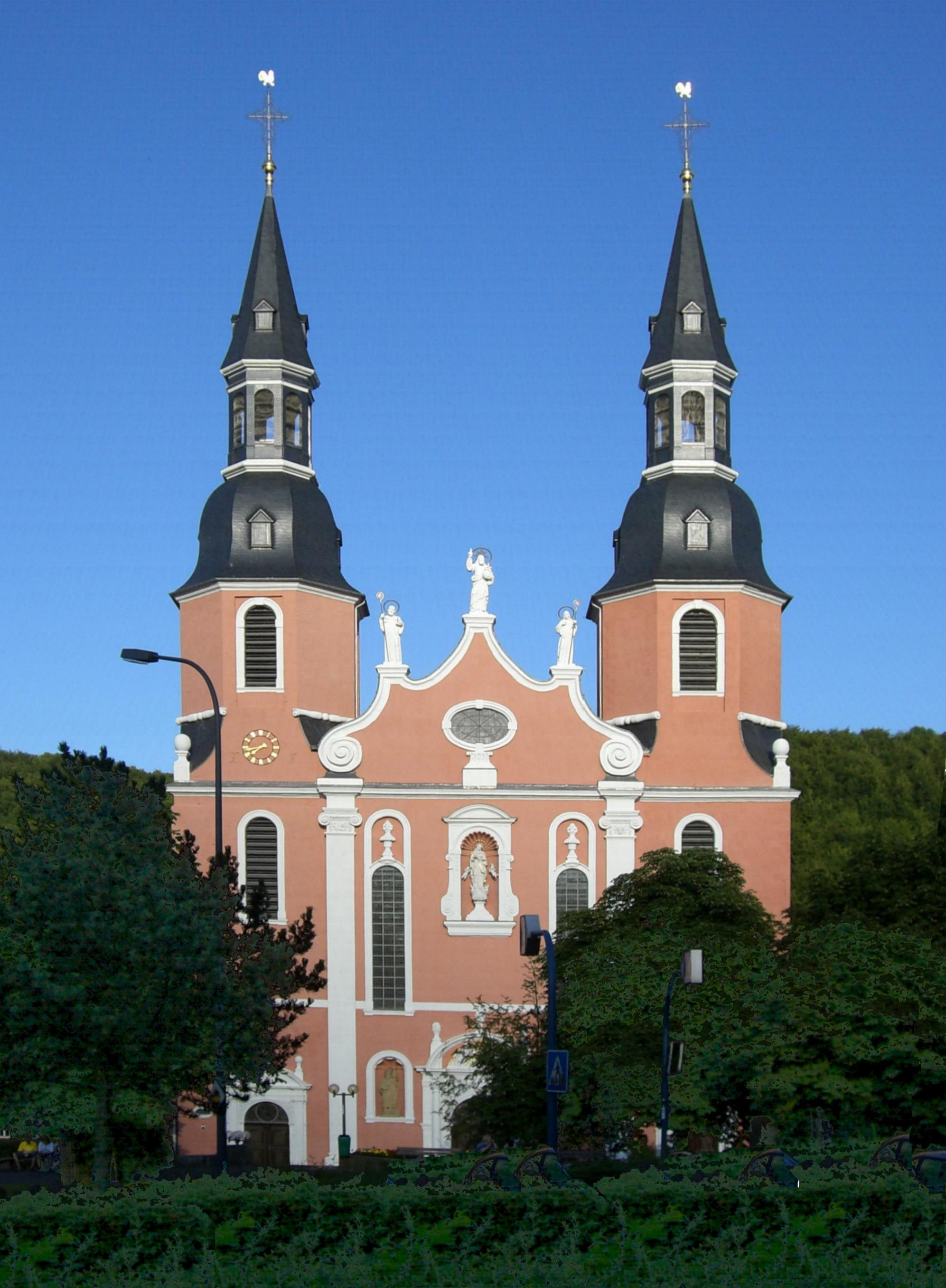 Façade of the Basilica of the Transfiguration of Our Lord, Prüm